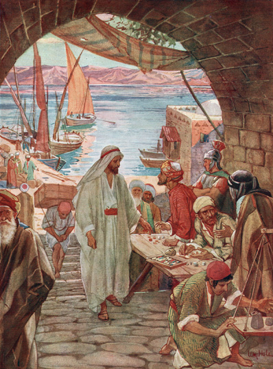 Jesus calls Levi. From book: The Life of Jesus of Nazareth. Eighty Pictures.